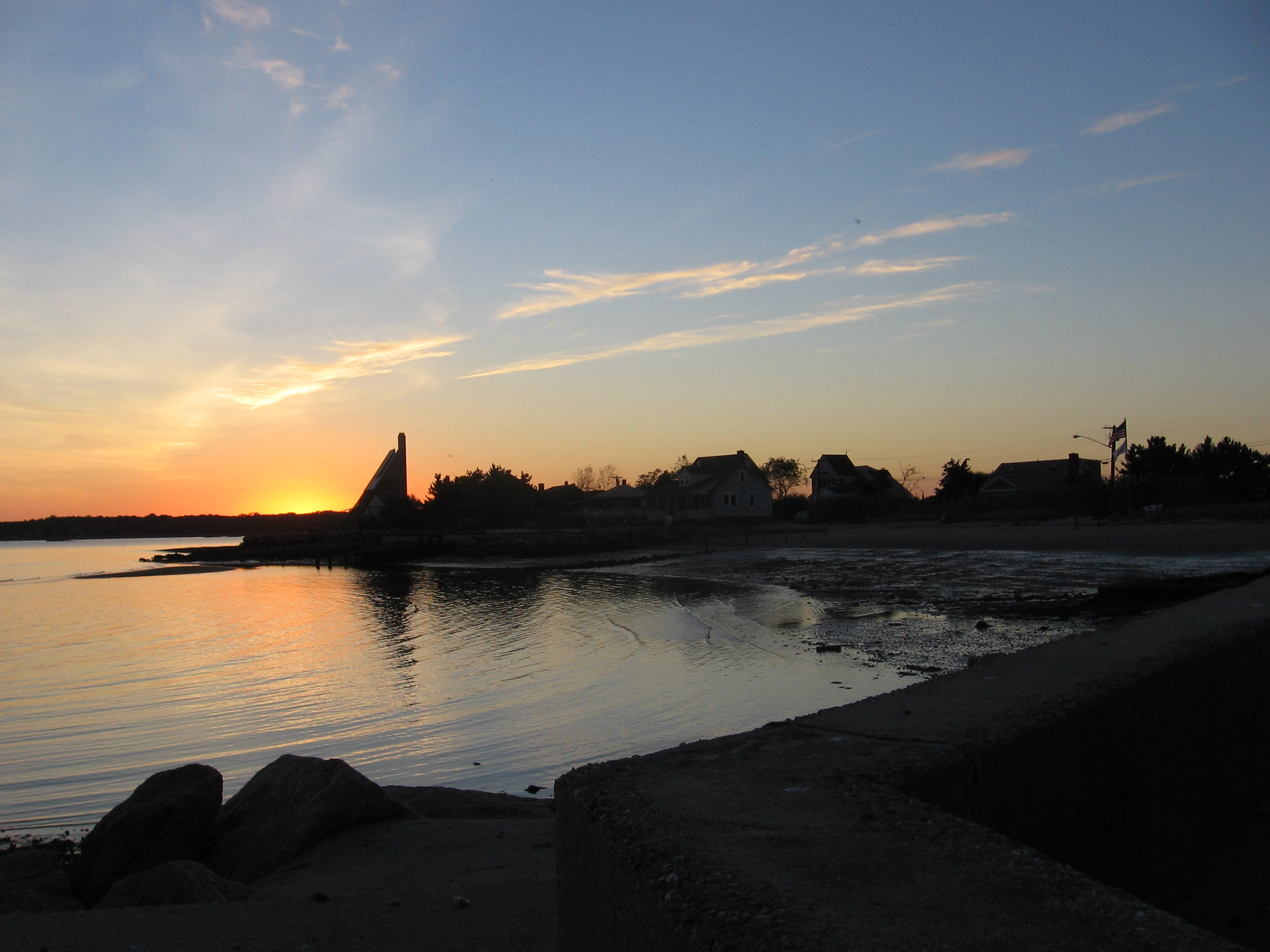 Sunset over the beach in Madison, Connecticut. Taken by me October 2006.